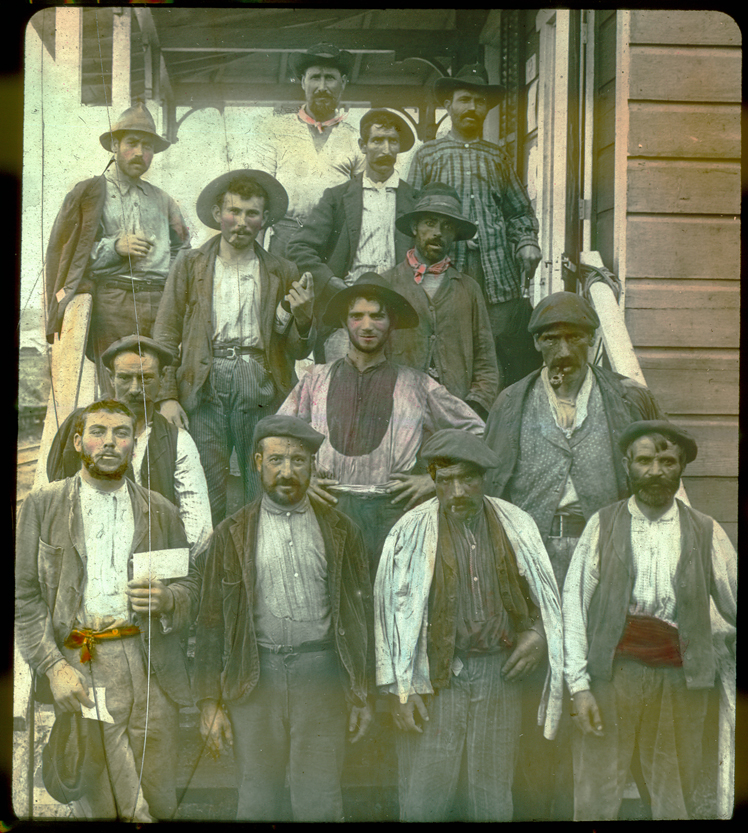 Spanish laborers ; An unusual hand-tinted lantern slide of Spanish laborers on the Panama Canal, also noted as the Isthmian Canal. Early 1900s. From the William C. Gorgas lantern slide set of the Registry of Noteworthy Research in Pathology.